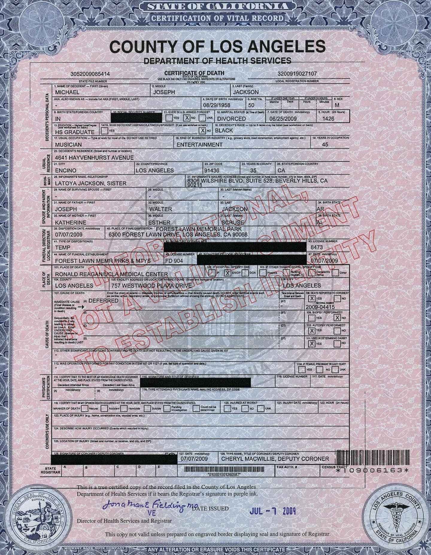 Death certificate for Michael Jackson, released on July 7, 2009, by the State of California.